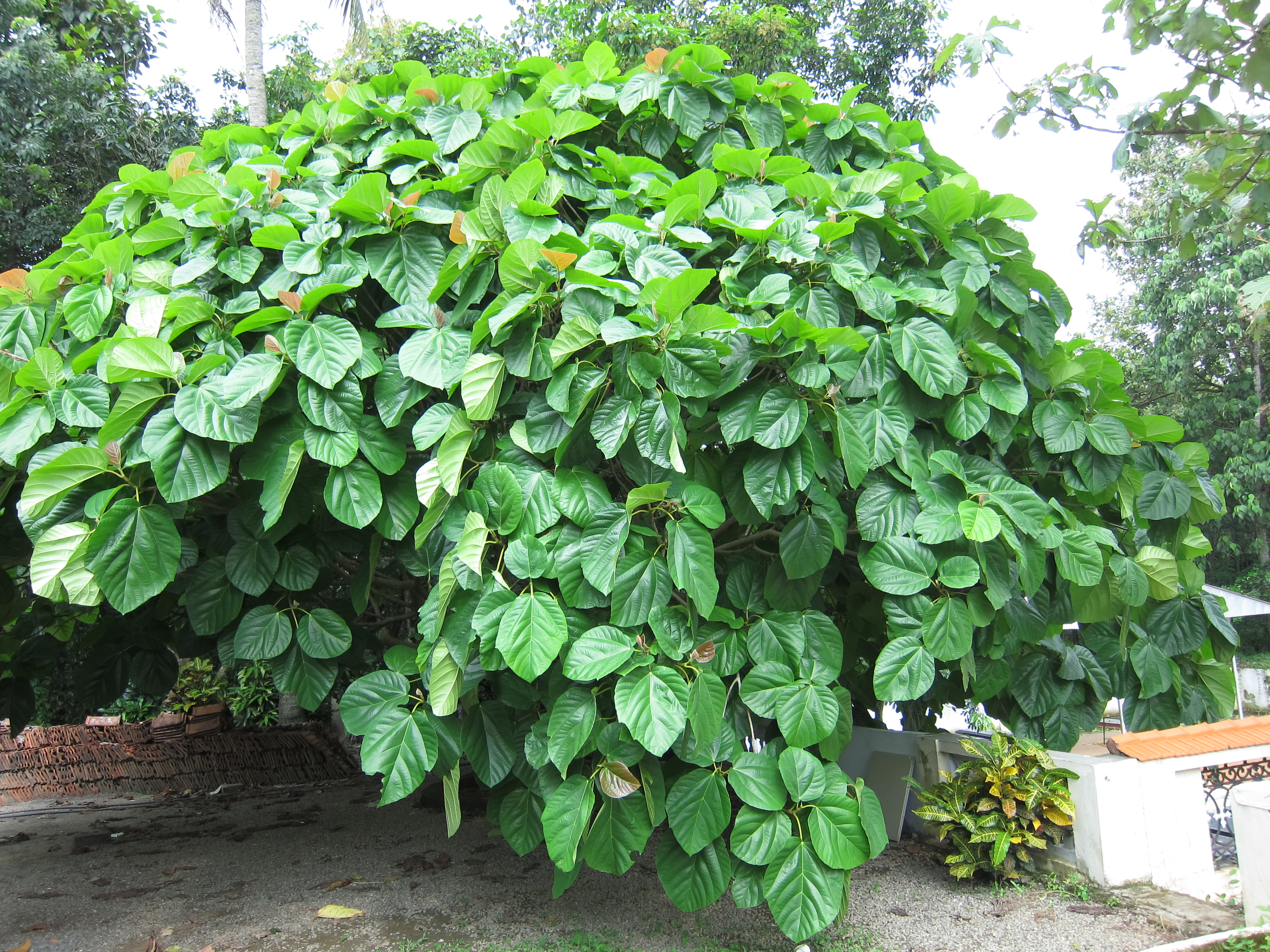 Fig Tree, Ficus auriculata, elephant ear fig tree